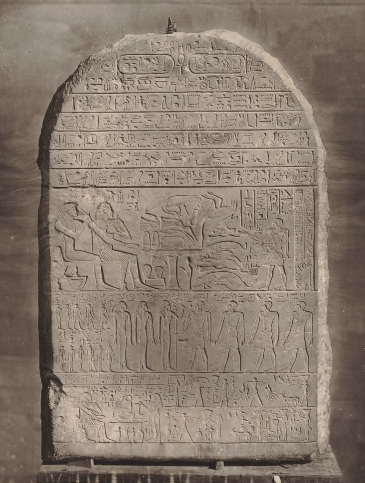 Funerary stele for an ancient Egyptian called Intef, dating to both Year 30 of king Sehetepibre (Amenemhat I) and Year 10 of king Kheperkare (Senusret I), thus made during their coregency. Limestone from Abydos, northern necropolis (Kom es-Sultan), reign of Amenemhat I (Year 30), early 12th Dynasty, Middle Kingdom. Cairo Museum, CG 20516.